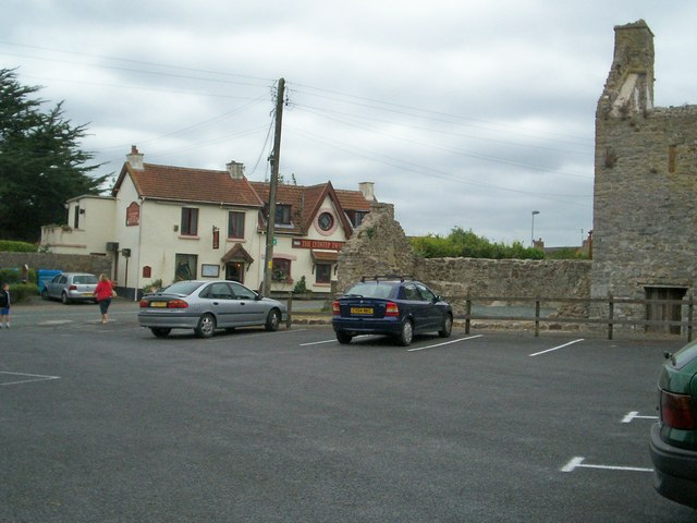 The Lydstep Tavern and Bishop's Palace. The remains of the Bishop's Palace are on the right, with the pub across the A4139.